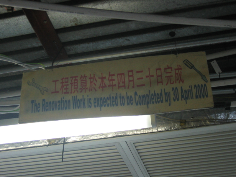 New Town Plaza renovation note in 2000